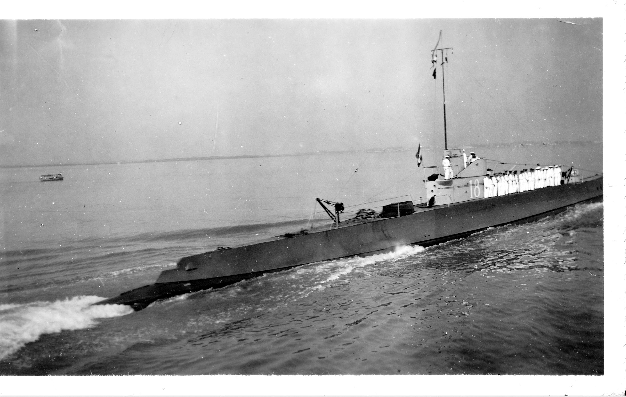 The Dutch submarine K18 in the Dutch East Indie (ca. 1935). Arriving in Soerabaya.